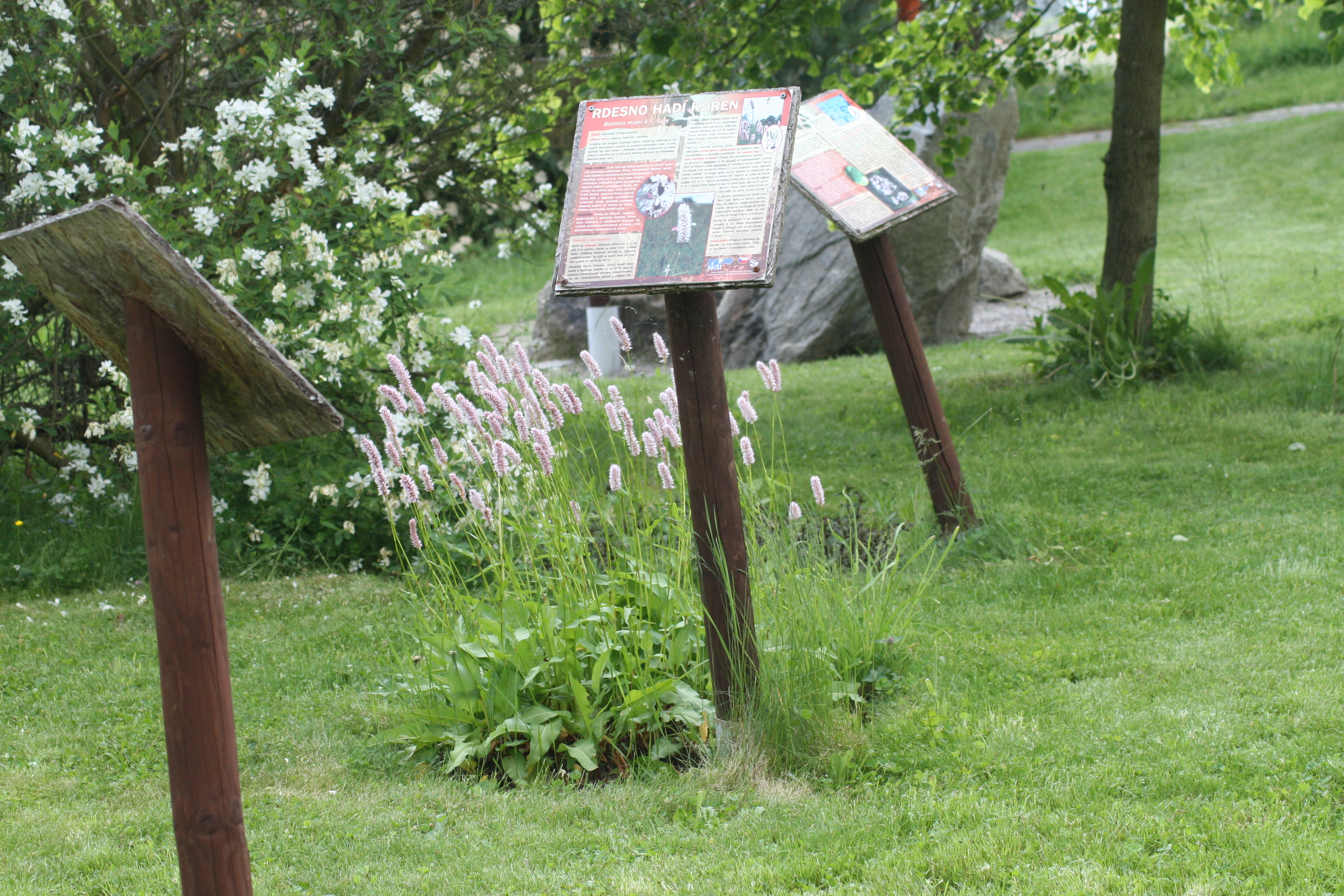 expositions in Nature History Museum Tyn nad Vltavou